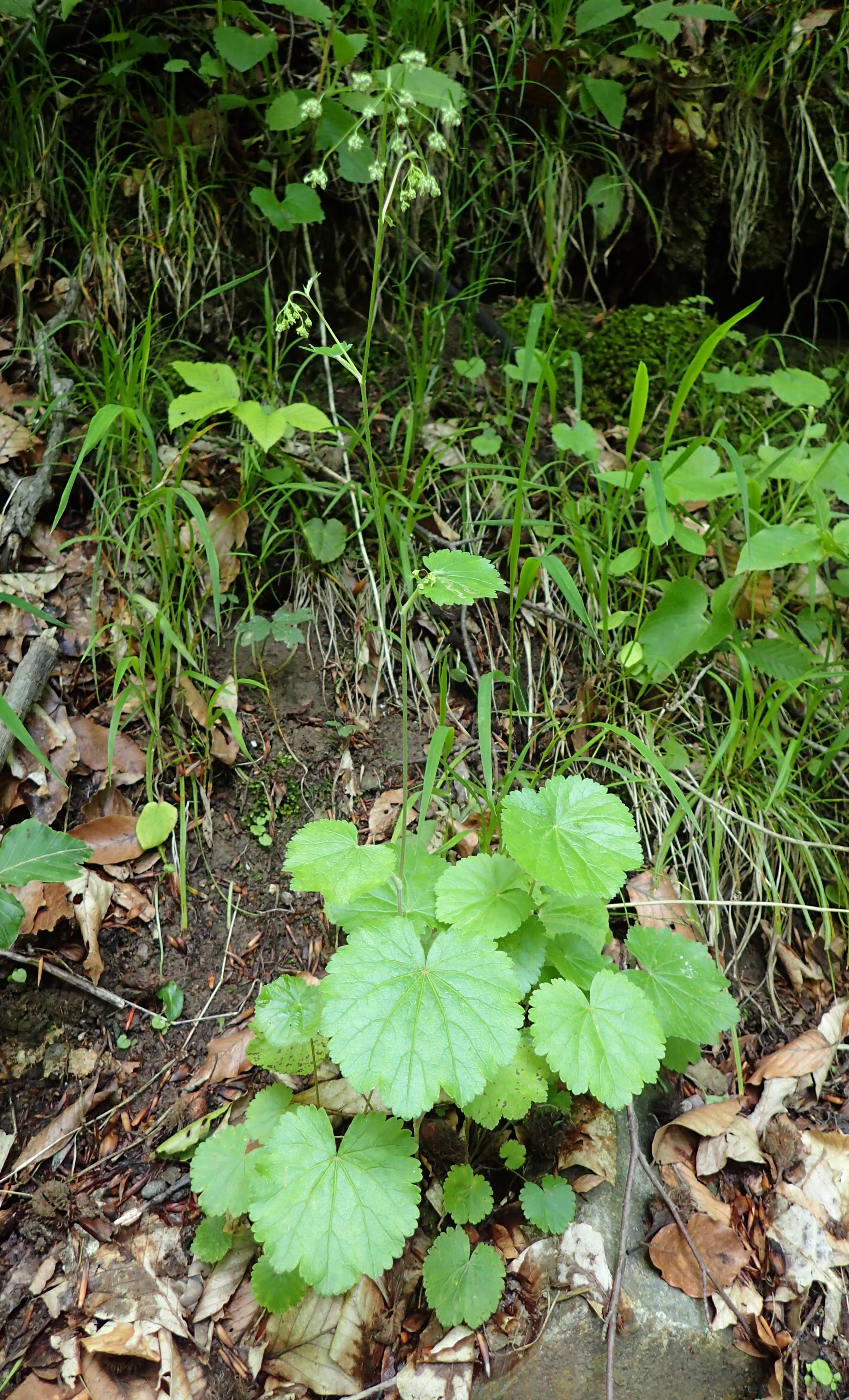 Pimpinella tripartitain in Haghartsin, Armenia